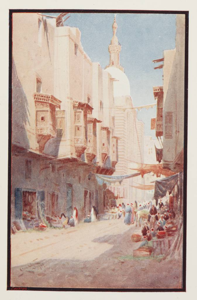 Pastel drawing of a street in Cairo with open-air market stalls.